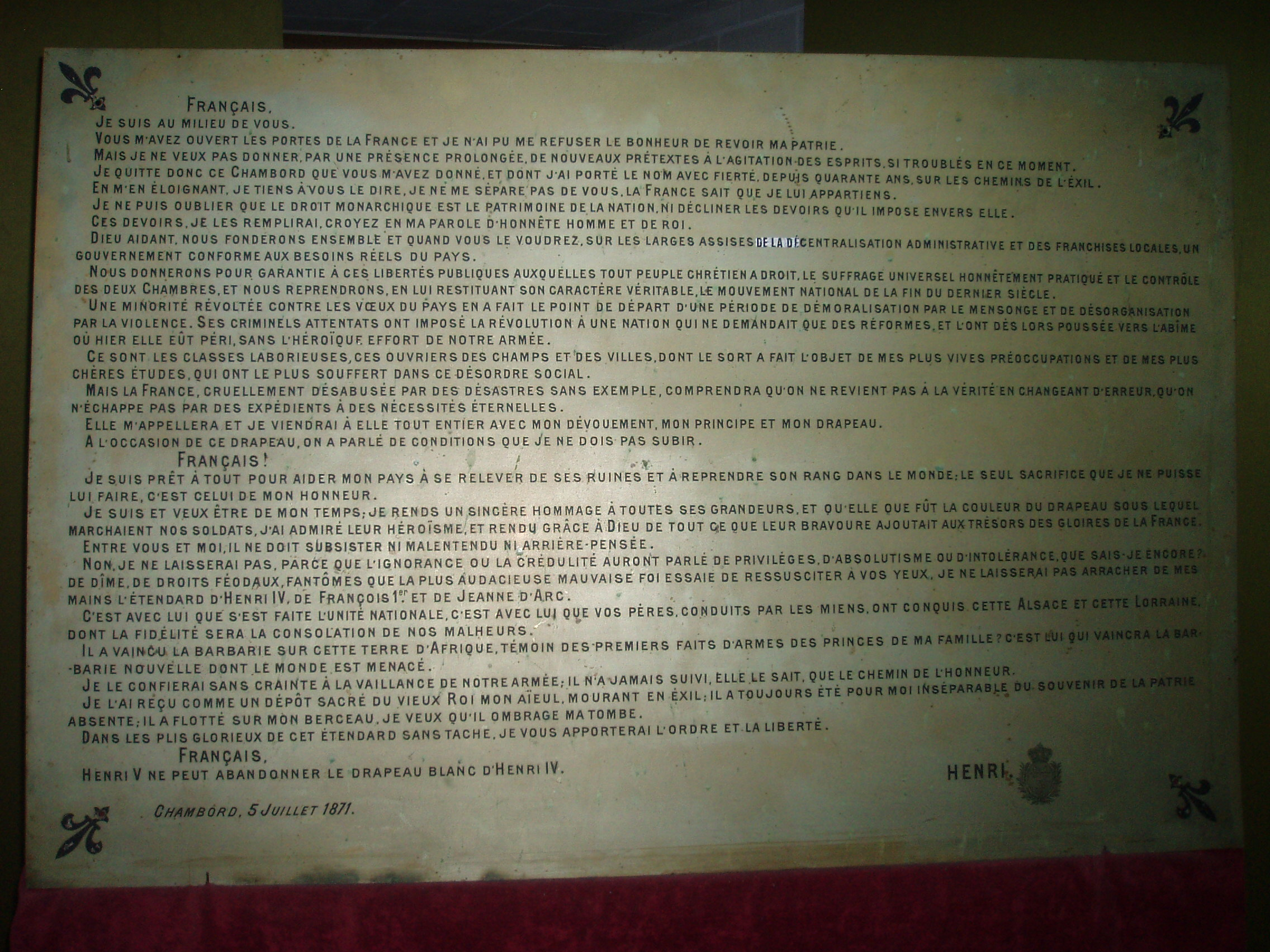 Plaque of the declaration by Henri, Comte de Chambord (Henry V), at the Chateau de Chambord, France.